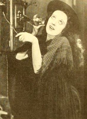 Still from the American film When Doctors Disagree (1919) with Mabel Normand, on page 1675 of the June 14, 1919 Moving Picture World.